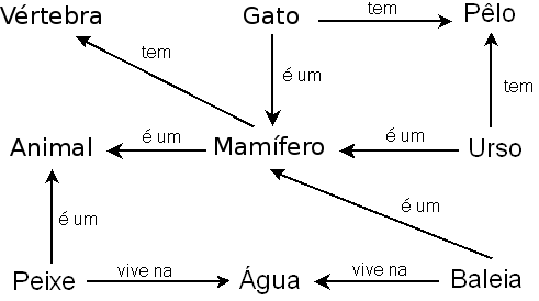 Semantic network pt